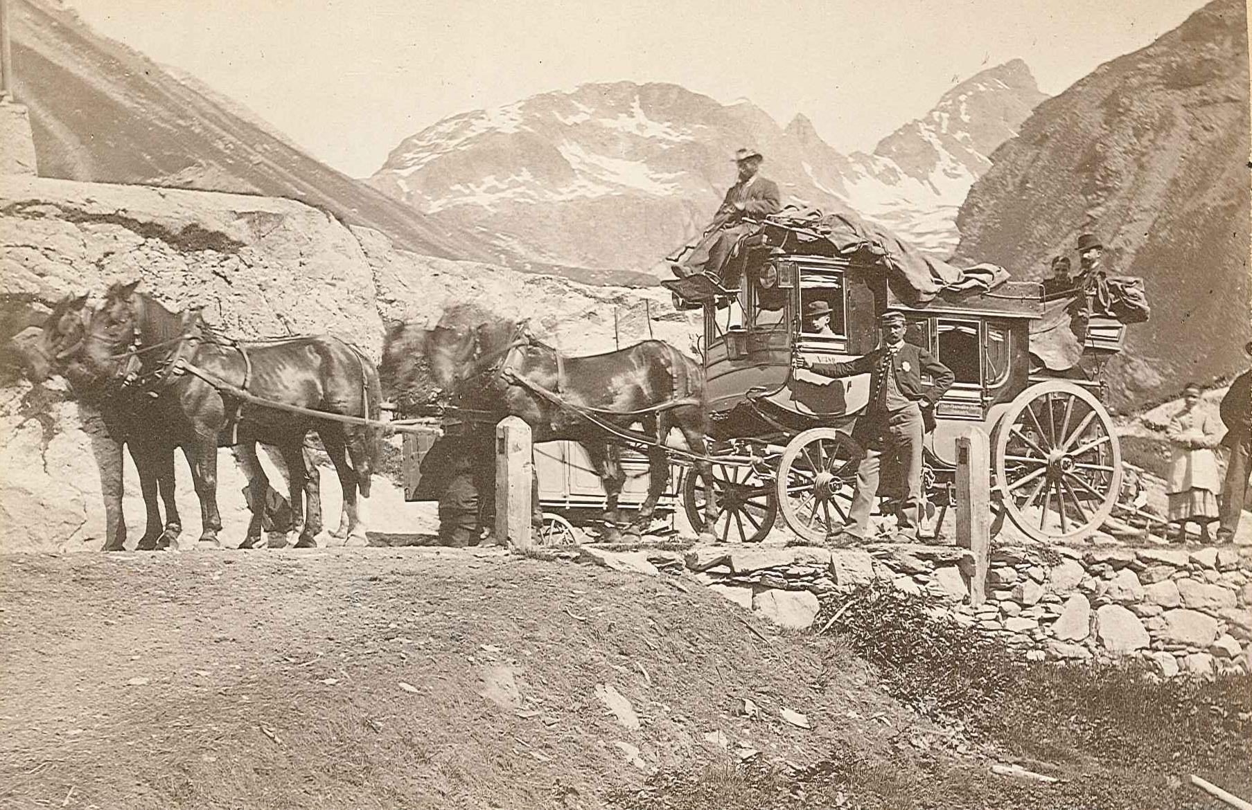 Stagecoach (Diligence) on the Julier Road